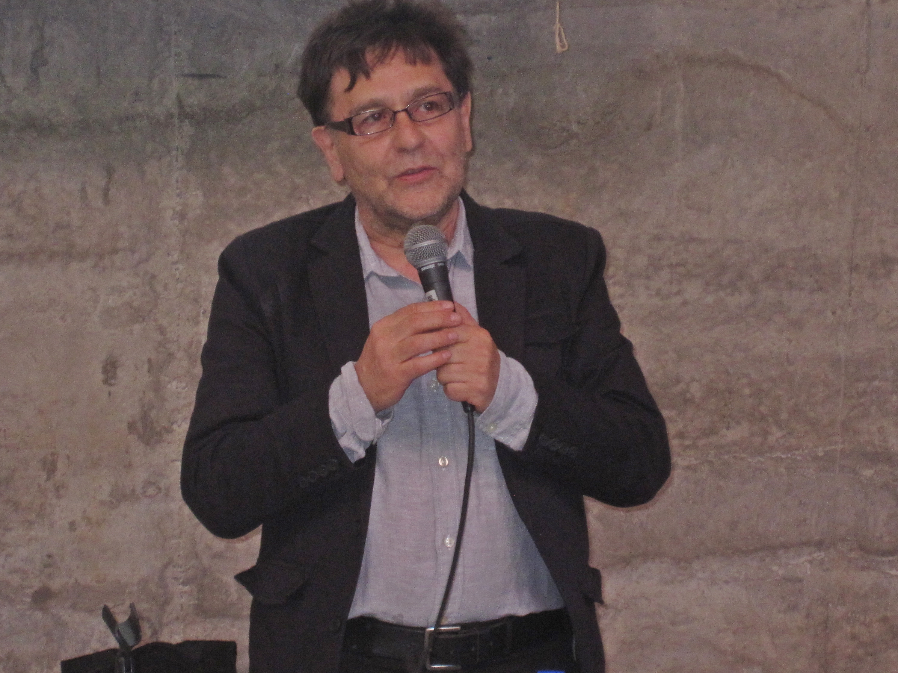 Colombian philosopher, semiologist and professor Armando Silva Téllez delivering a public lecture at the Memorial da América Latina in São Paulo, Brazil.